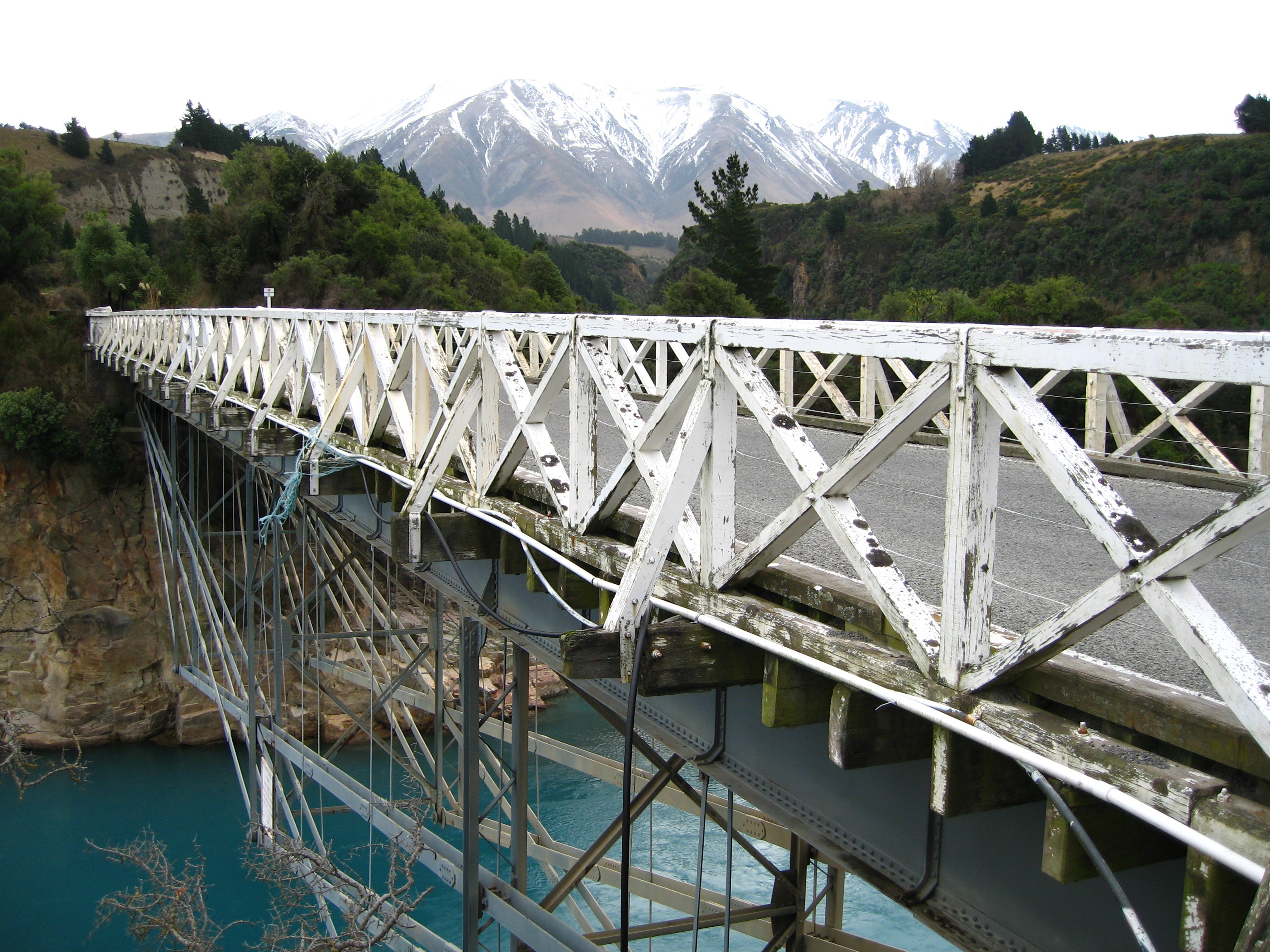 Rakaia Gorge Bridge (1882), Rakaia River, Canterbury, New Zealand. It is a "Bollman Truss" bridge construction